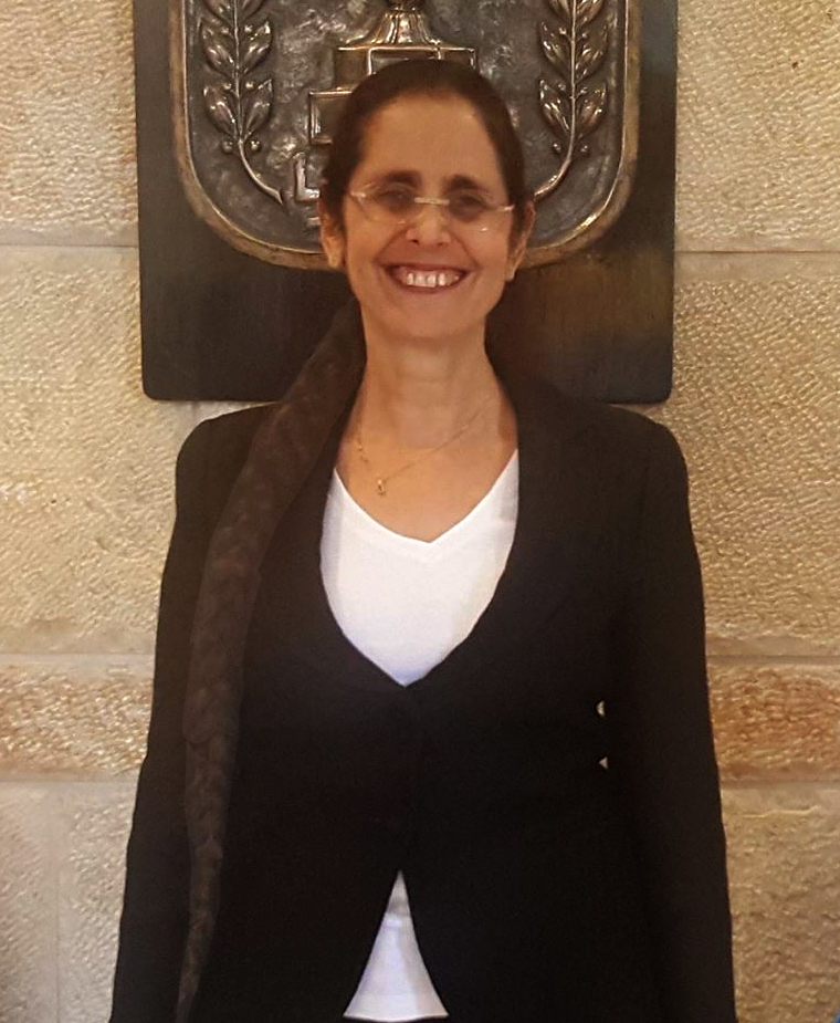 Member of the Israeli Knesset, Dr. Anat Berko, 2016